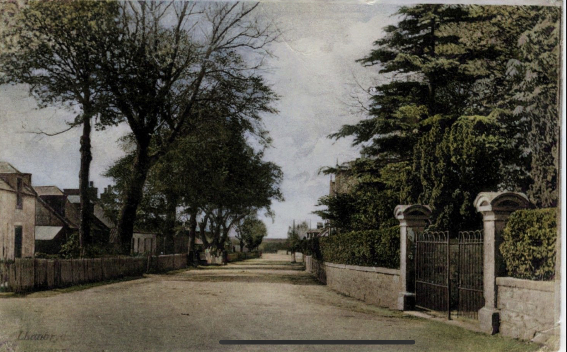 Lhanbryde 1905, from a colourised postcard. Looking west.